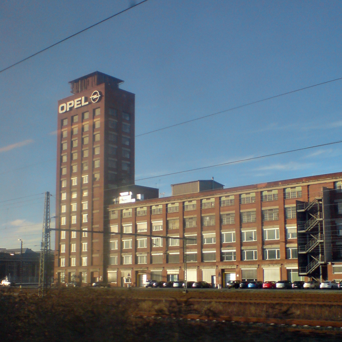 The admin and factory buildings of Opel in Rüsselsheim, Germany, seen from the train.